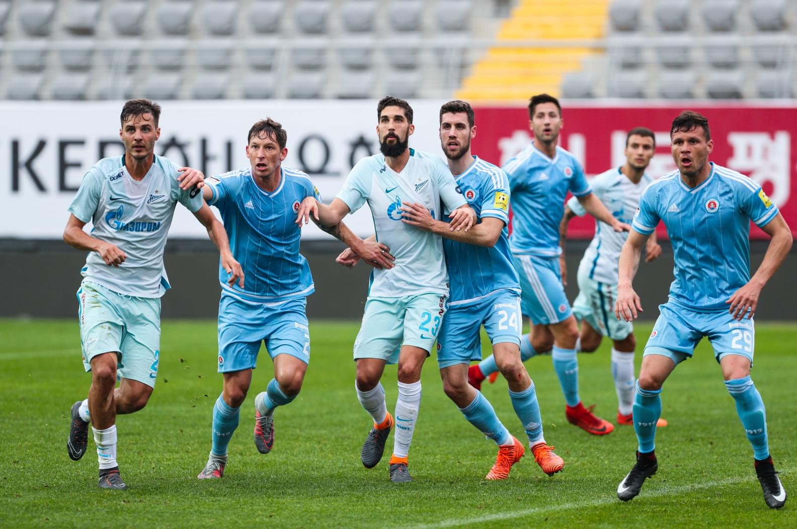 04.02.18. Турция, Анталья, стадион «Мардан». Вторые зимние «Газпром» — тренировочные сборы: товарищеский матч «Зенит» — «Слован».